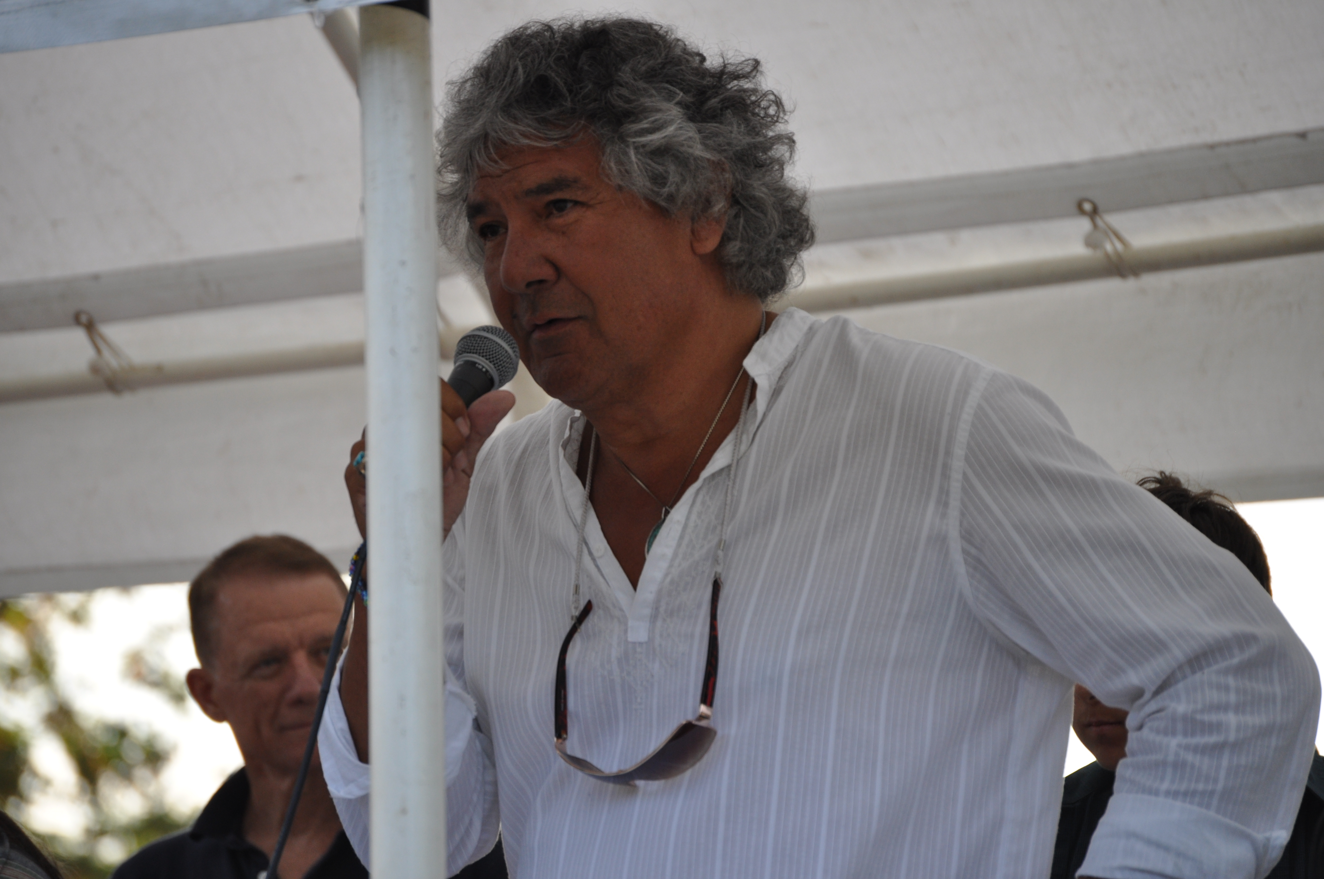 Marty Bluewater, Executive Director of United Indians of All Tribes Foundation, Seafair Indian Days Pow Wow, Daybreak Star Cultural Center, Seattle, Washington. The event is part of Seafair (a series of annual summer events in Seattle) and under the aegis of the United Indians of All Tribes Foundation.